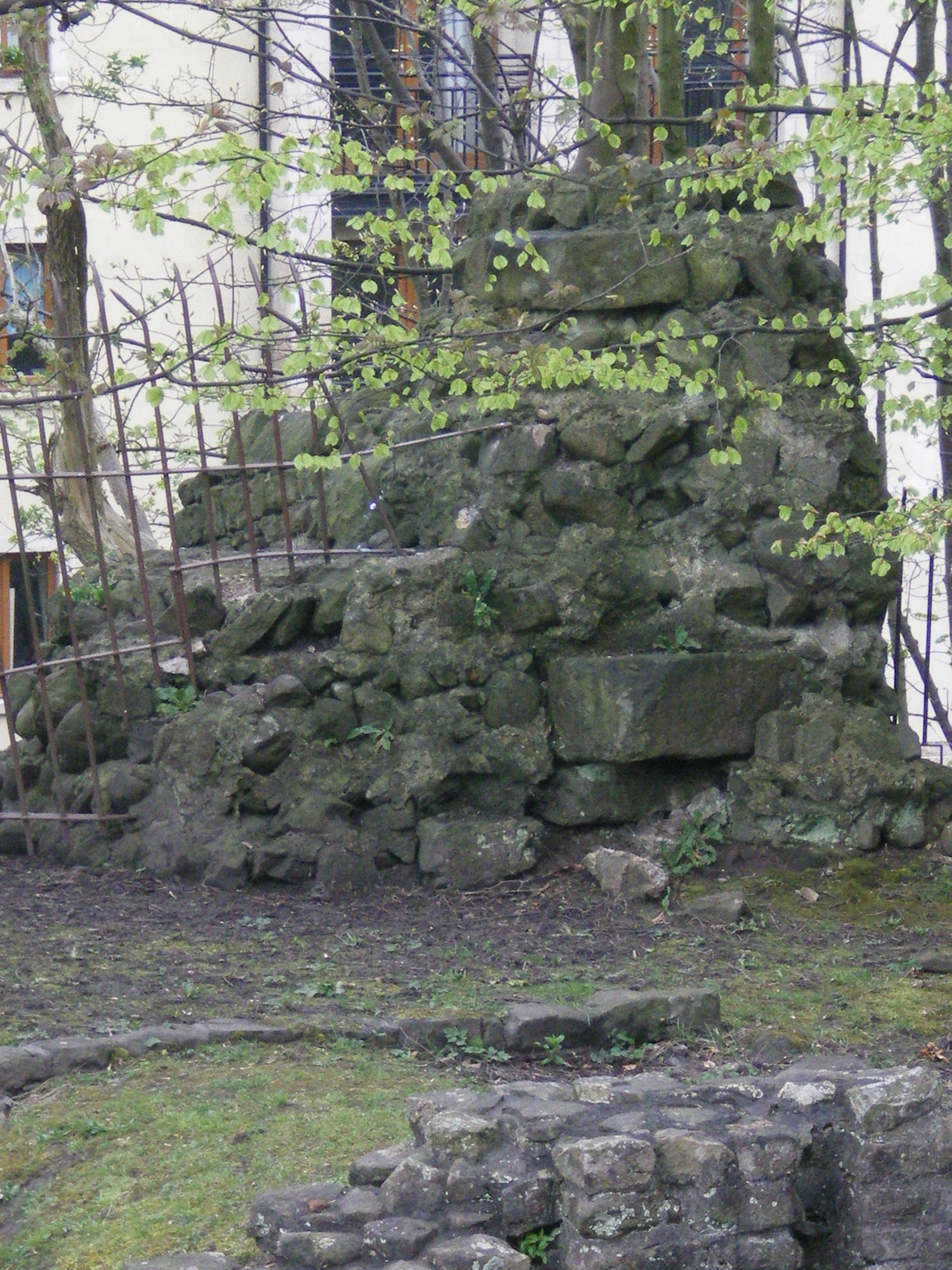 A fragment of masonry from a Roman fort, known as the Wery Wall, Lancaster. Lancashire